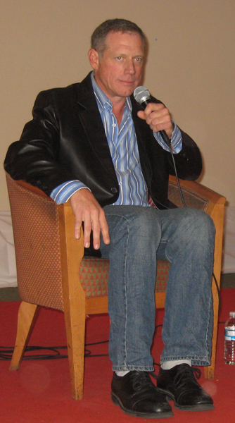 Fredric at a Showmasters Convention in 2008